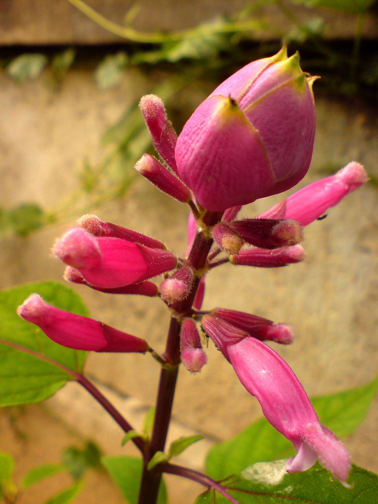 Salvia involucrata - Botanical Garden Göttingen